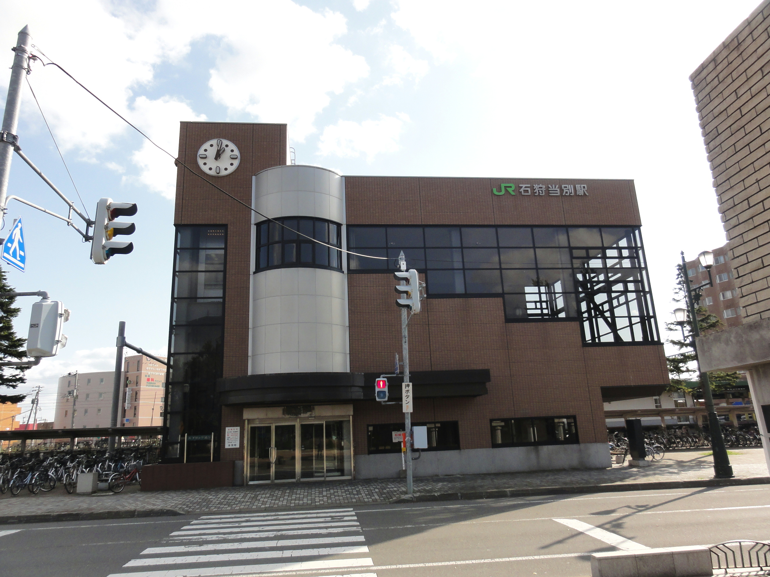 North entrance of Ishikari-Tōbetsu Station on the Sasshō Line in Tōbetsu, Hokkaido, Japan